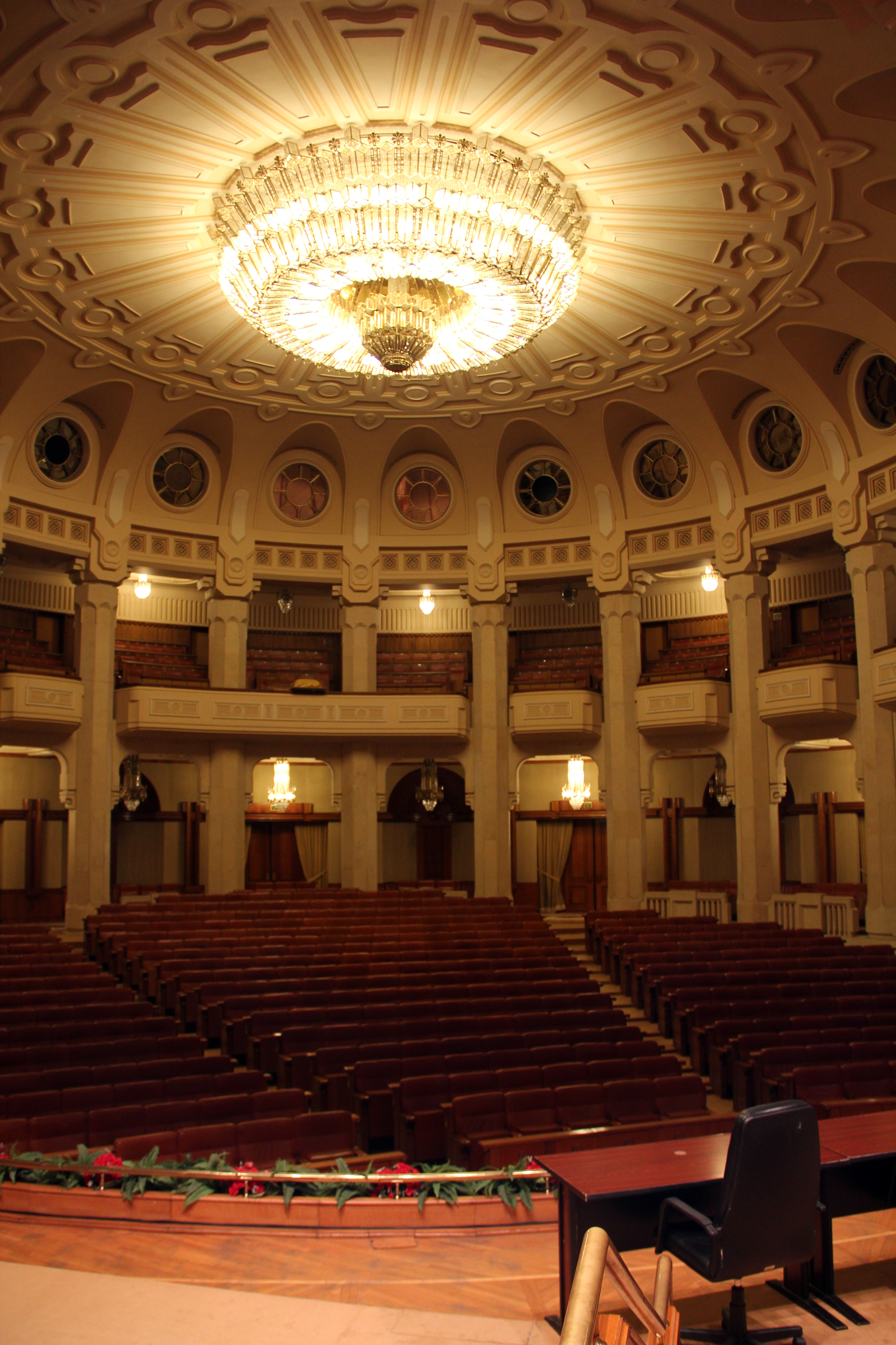 Chamber of Deputies of Romania